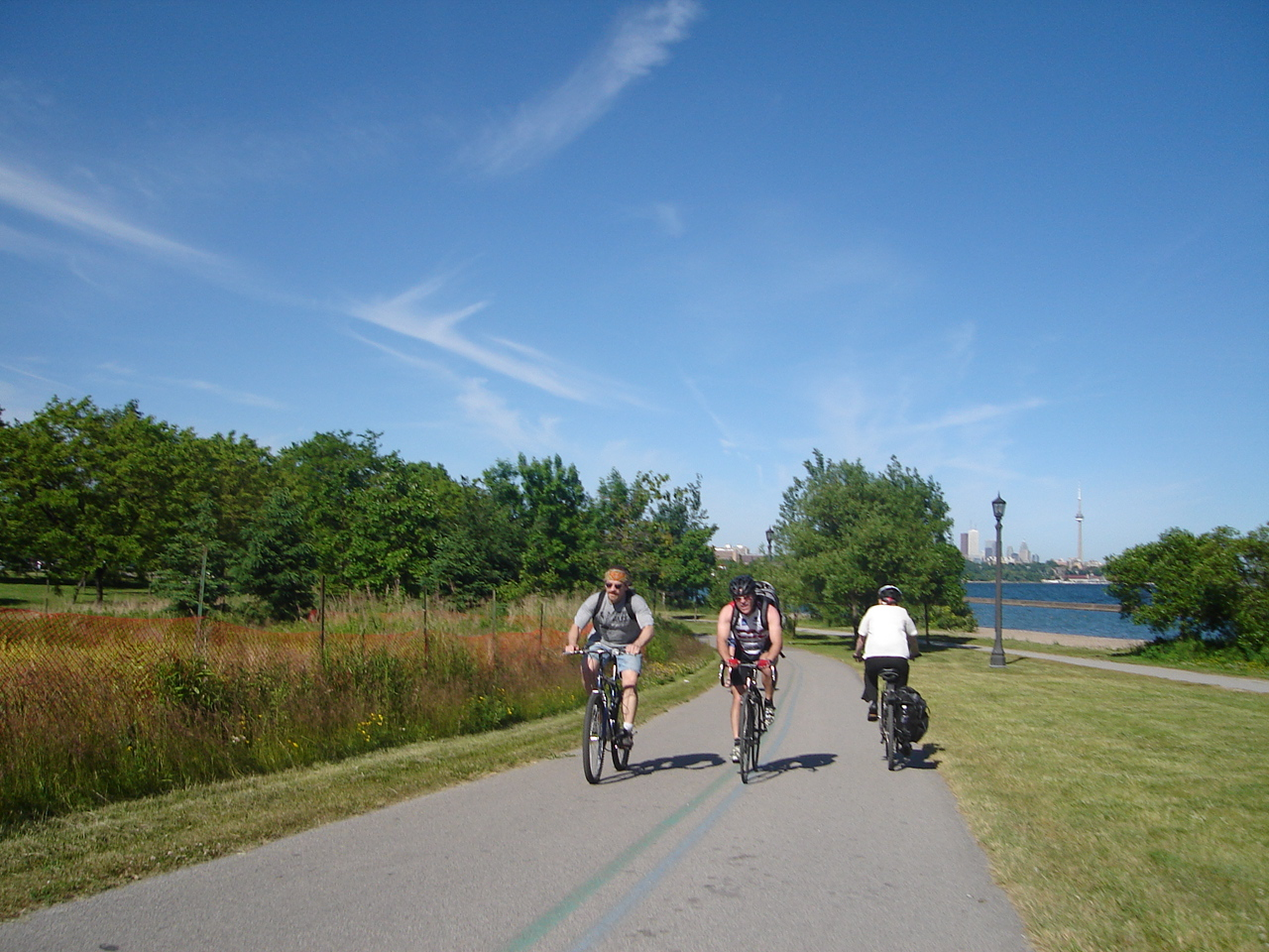 Cyclists riding on the Martin Goodman Trail, Humber Bay, Toronto Ontario